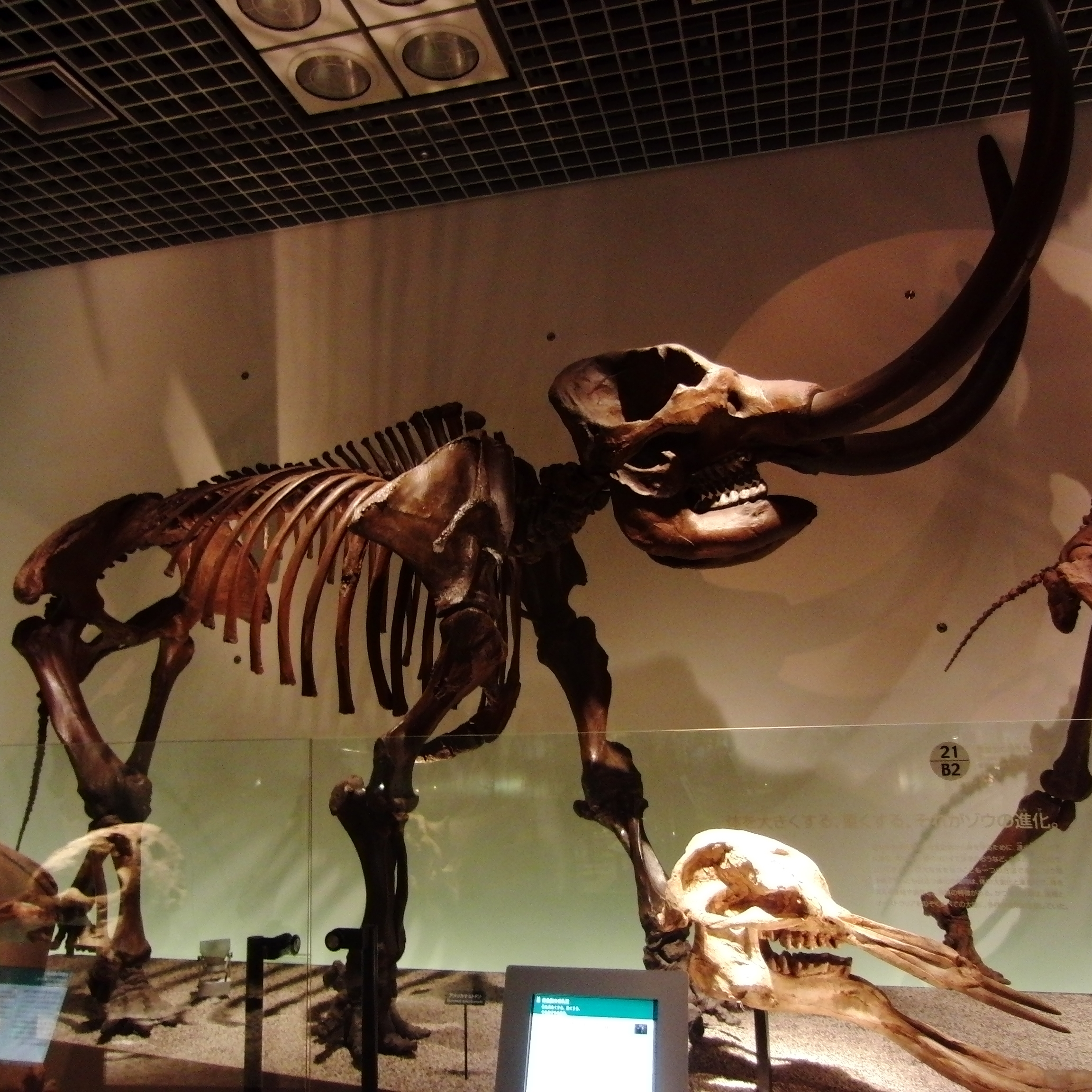 Skelton of American mastodon (Mammut americanum). Exhibit in the National Museum of Nature and Science, Tokyo, Japan.